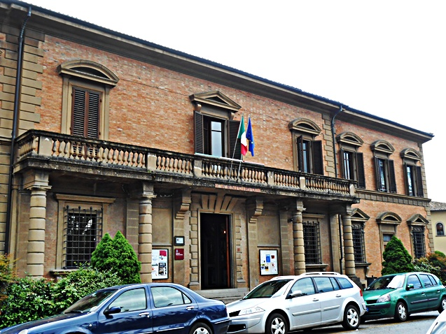 town hall